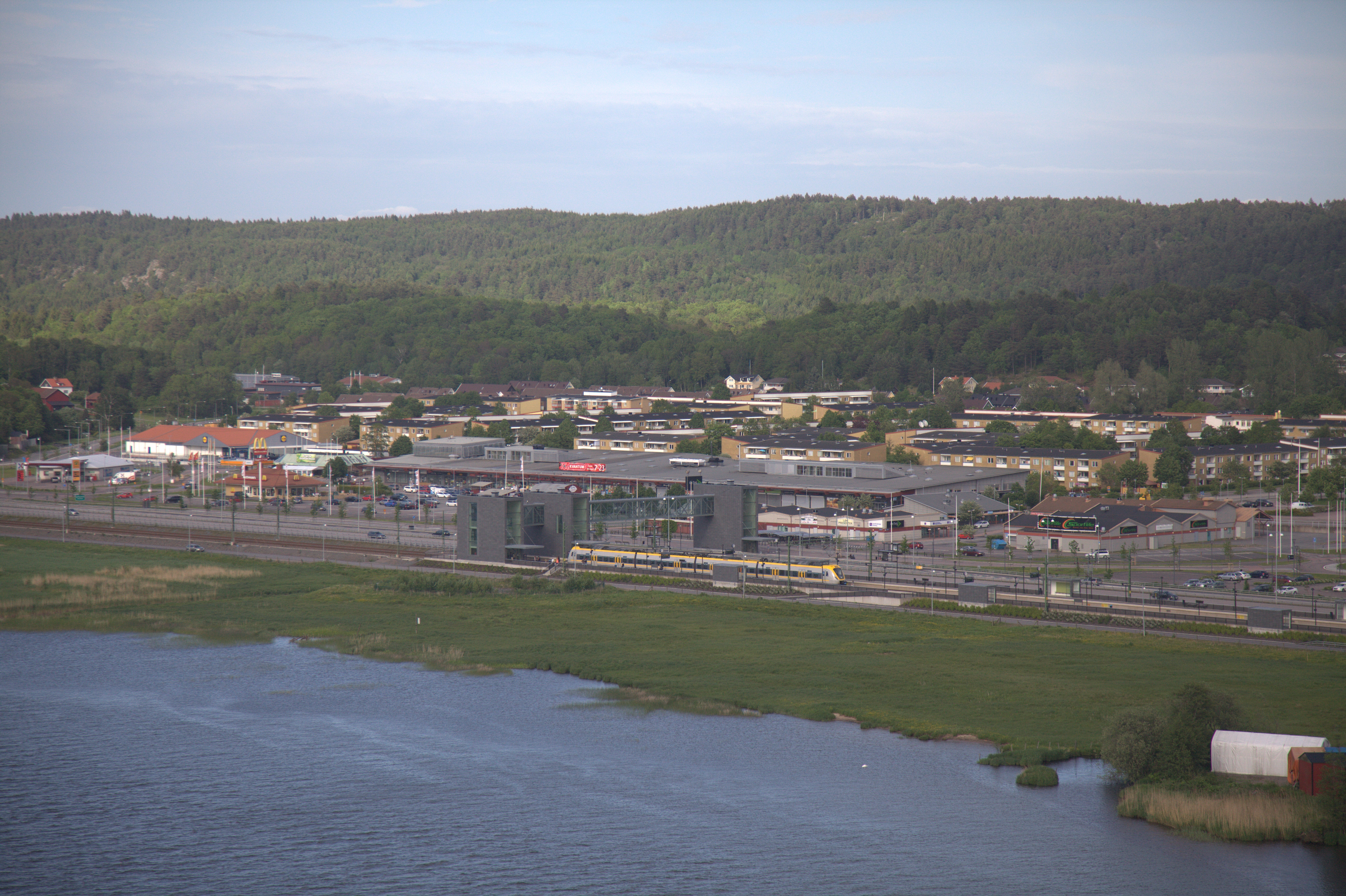 Nödinge seen from Mariebergs naturreservat.